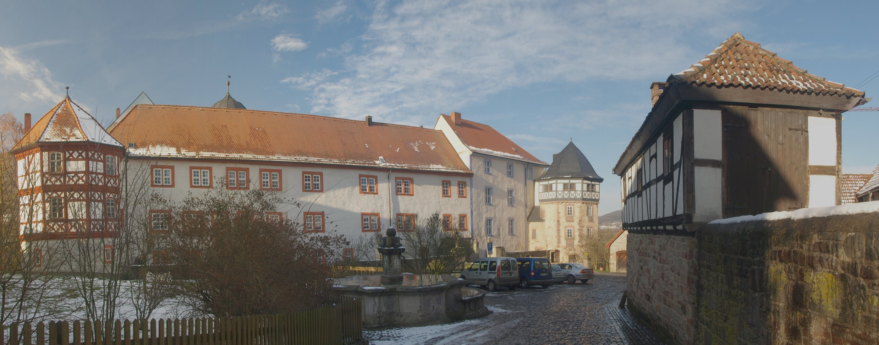 Eastern view of castle Tann in Tann (Rhön), taken from the street Schloß-Straße